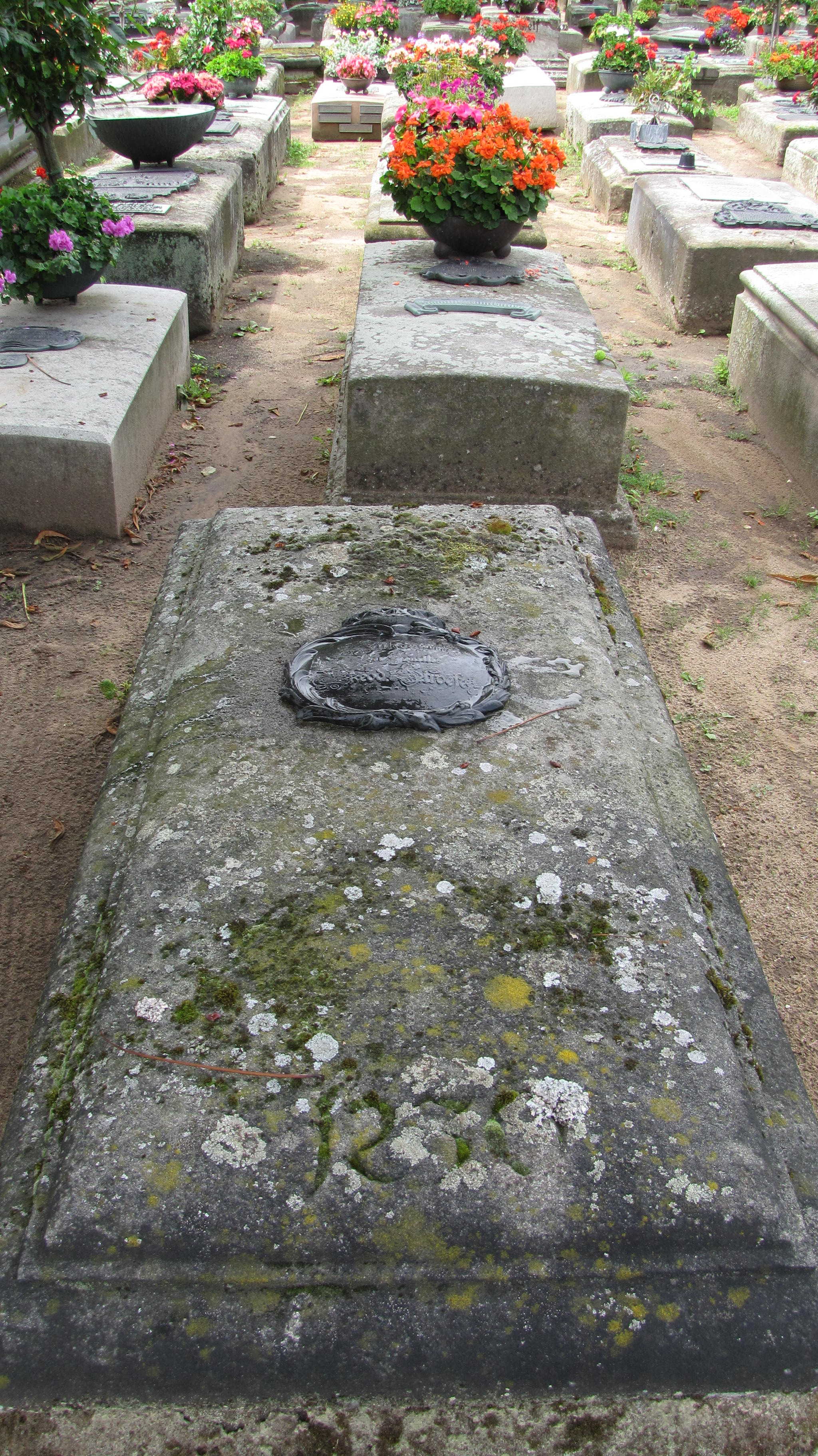 Family grave of Theodor Stroefer family, Johannisfriedhof Nürnberg I/1230